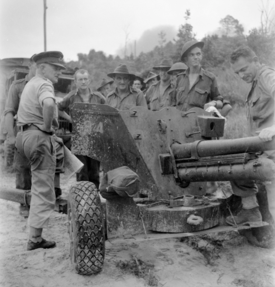 Anti-Tank Gun Inspection